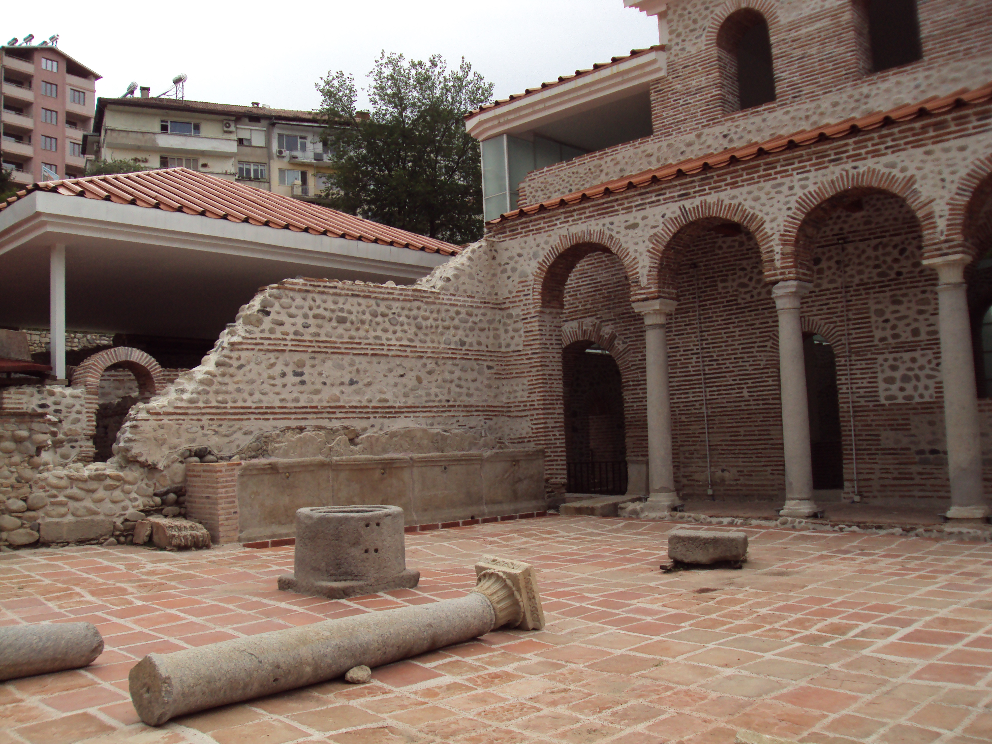 The episcopal basilica in Sandanski